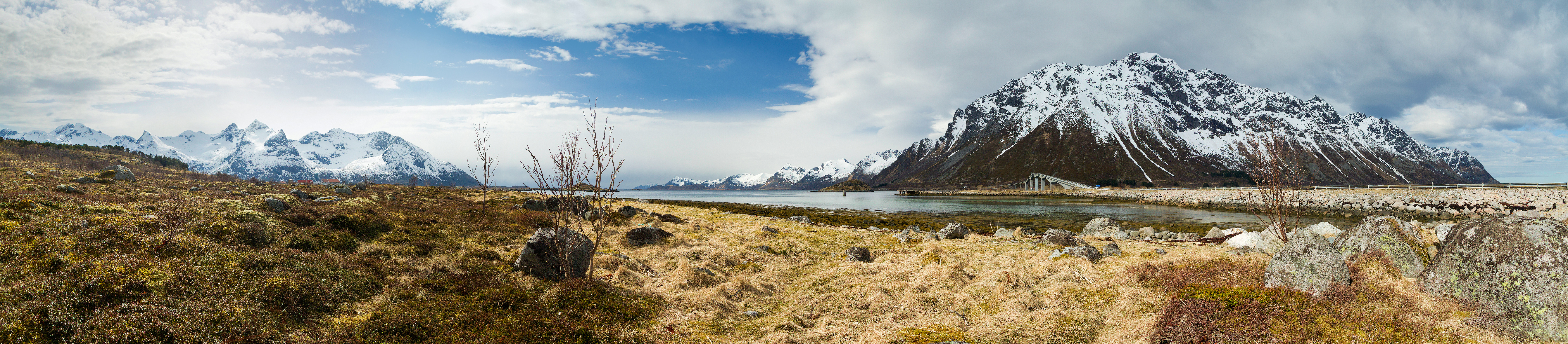 A view from Austvågøya to Gimsøystraumen in Lofoten, Nordland, Norway in 2015 April. The bridge on the right is Gimsøystraumen Bridge.